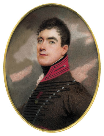 a miniature portrait of Major William Davy who commanded the 5th Battalion, 60th Regiment, at Roleia, Vimiera and Talavera during the opening battles of the Peninsular War in 1808-9. An old label attributes it to an unknown artist called W. Hine. It is close in style to the work of John (Inigo) Wright (d. London 1820). Found here